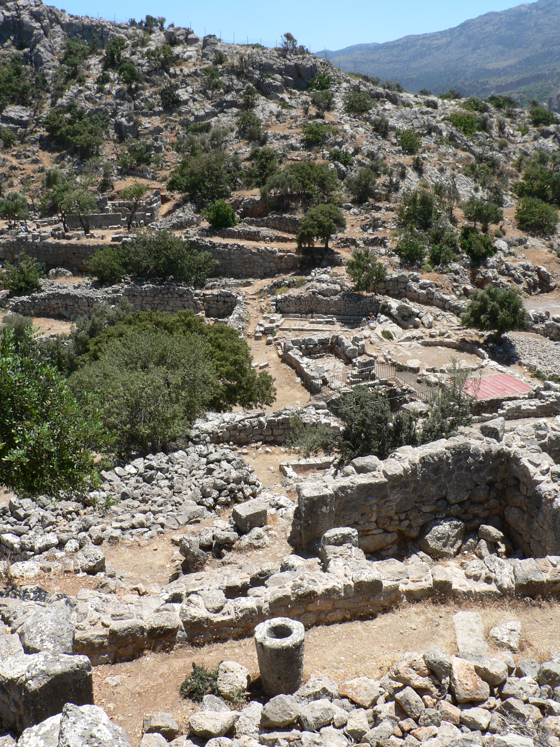 View of the archaeological site of Lato, in Lasithi prefecture, Crete